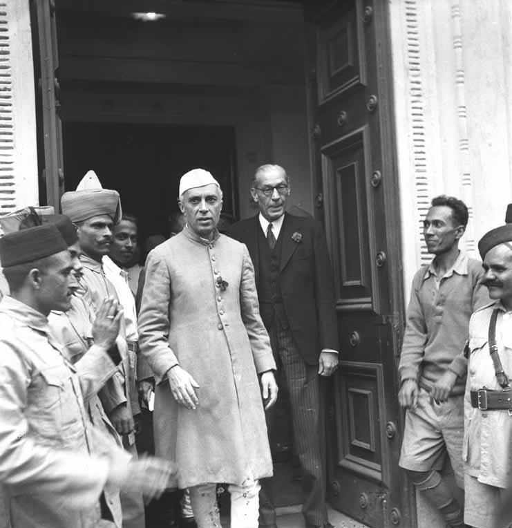 Prime Minister Jawaharlal Nehru with H.D. Cumberbatch President of the Associated Chamber of Commerce, Calcutta on the occasion of the Prime Minister's addres to the Chamber in Jan. 1948.